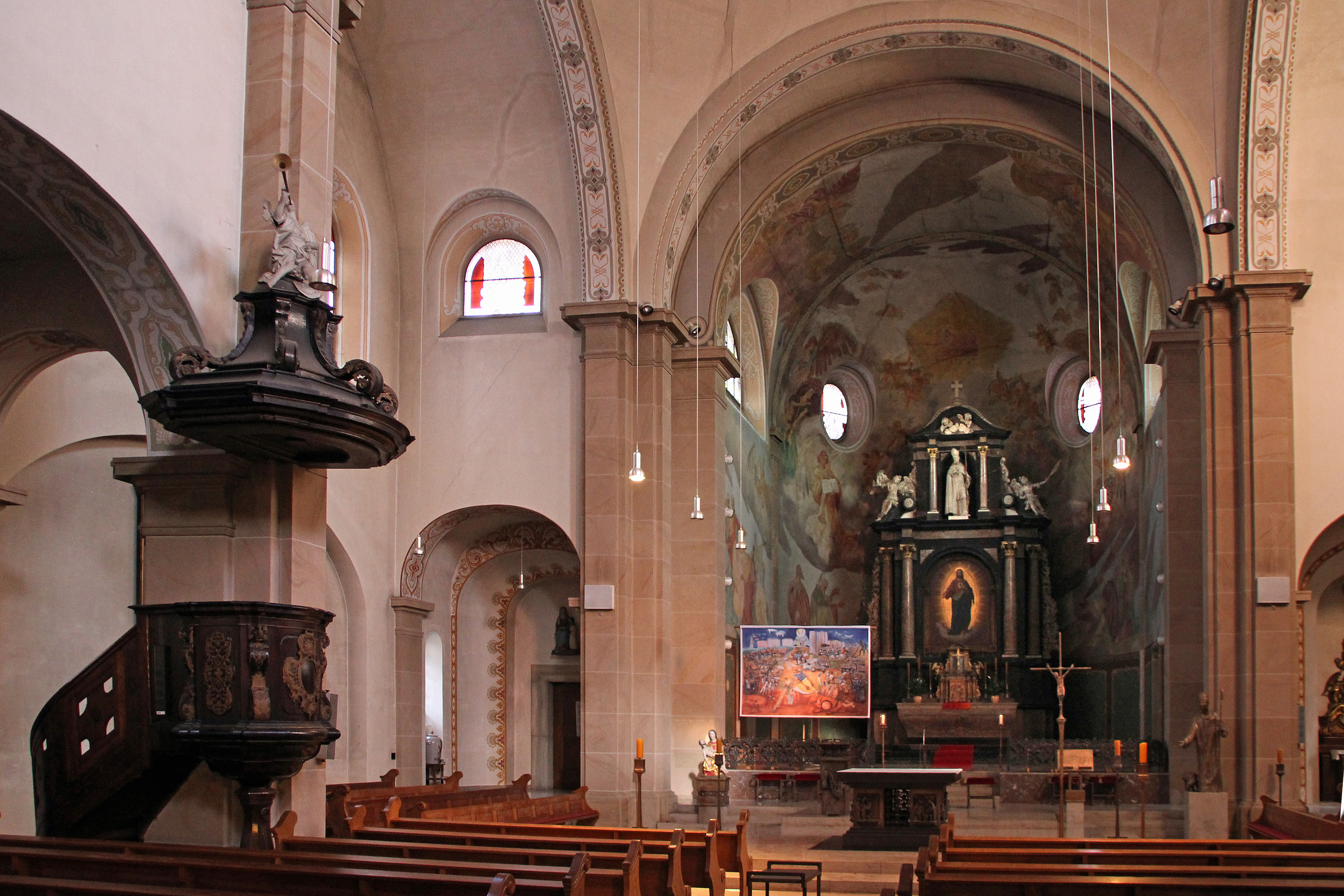 St. Maximin church in Koblenz